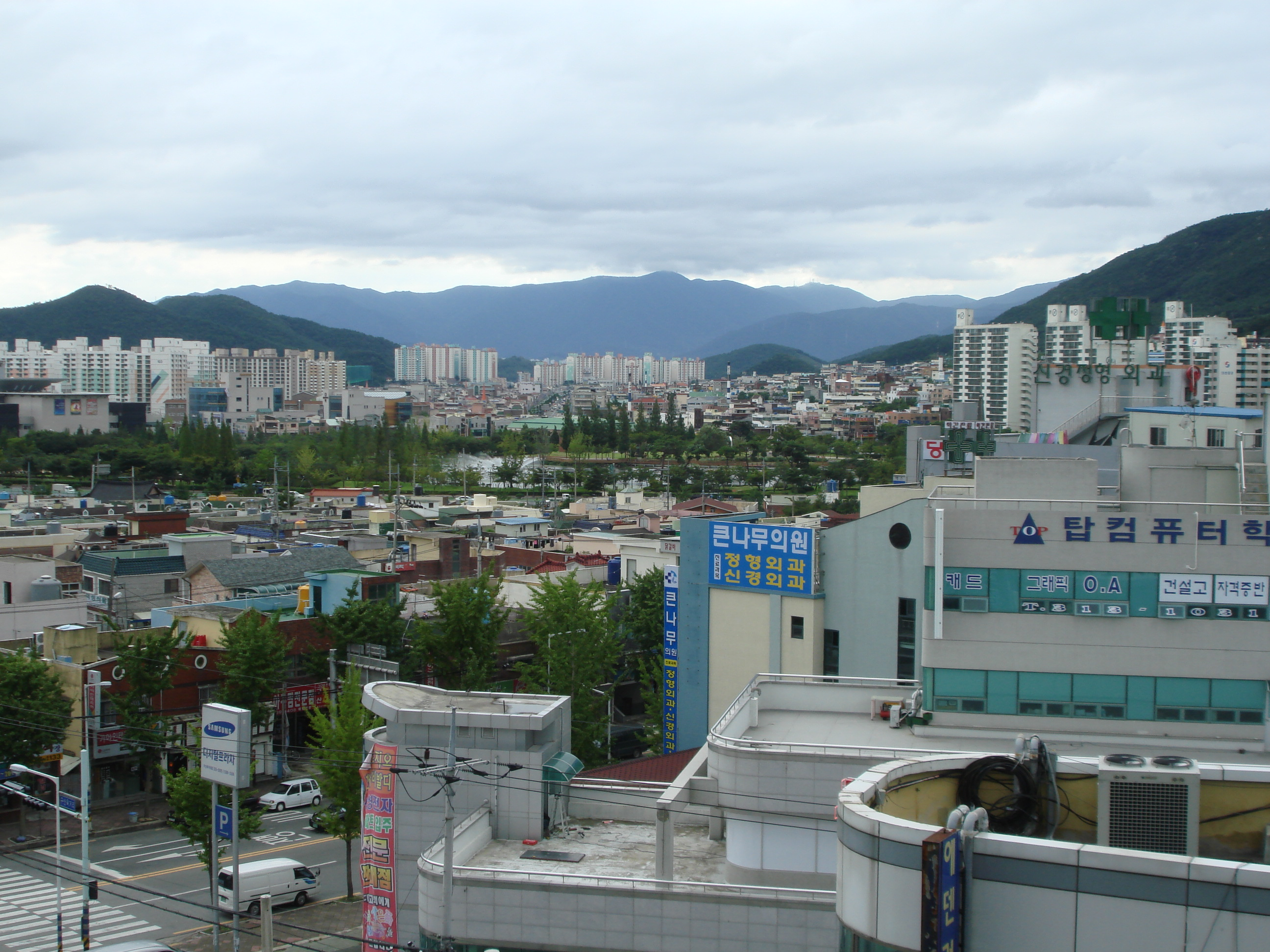 View of the west side of downtown Gimhae, South Gyeongsang, South Korea